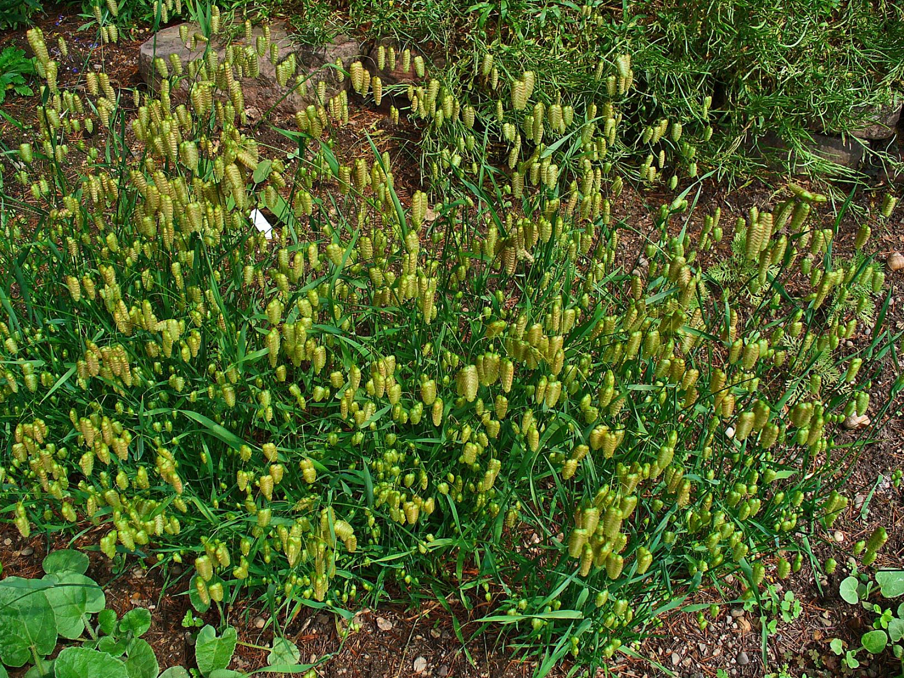 Briza maxima, Poaceae, Big Quaking Grass, Great Quaking Grass, Large Quaking Grass , Quaking Grass, Blowfly Grass, Shelly Grass, habitus; Botanical Garden KIT, Karlsruhe, Germany.